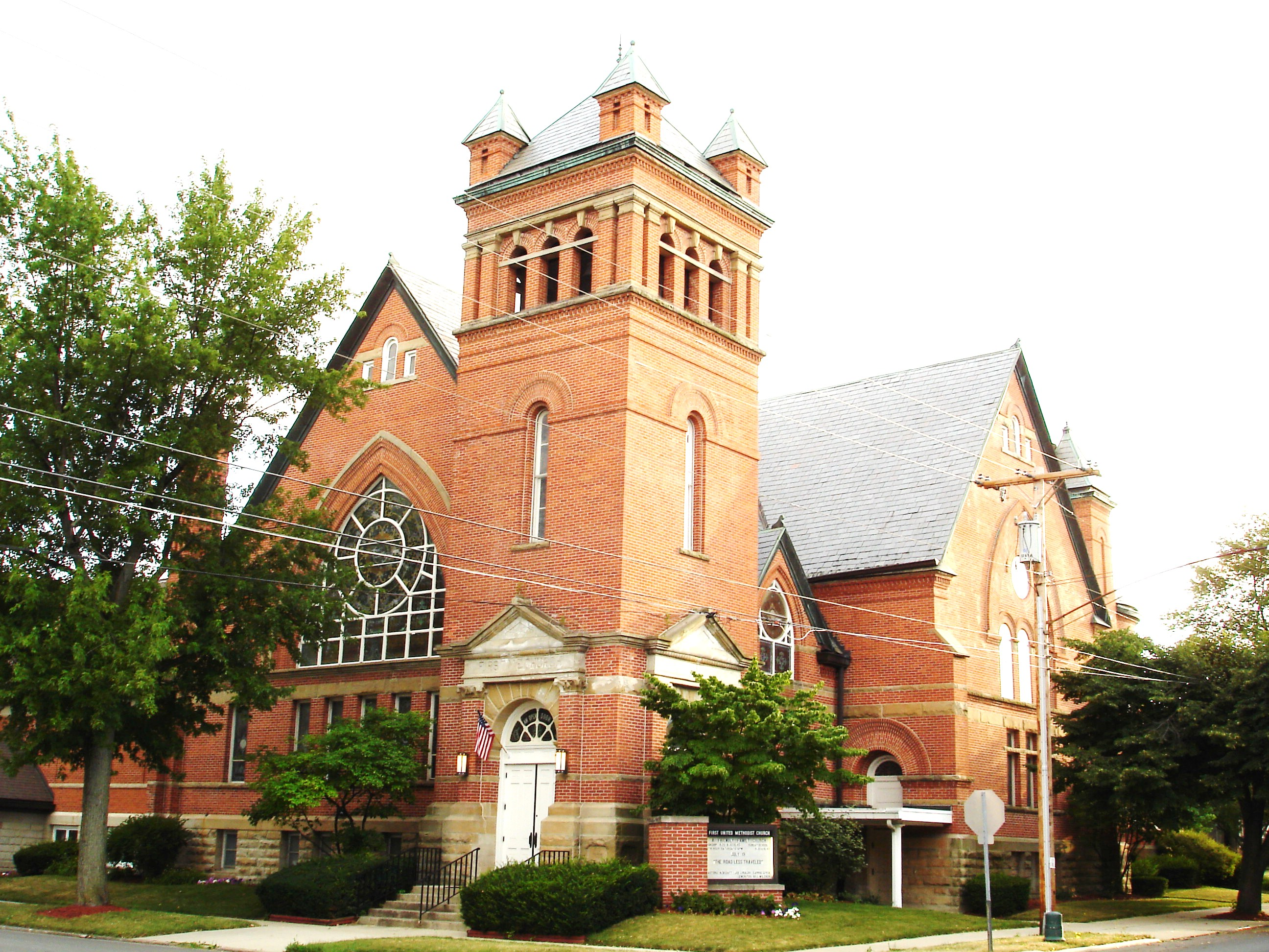 First United Methodist Church, Marysville, Ohio, United States